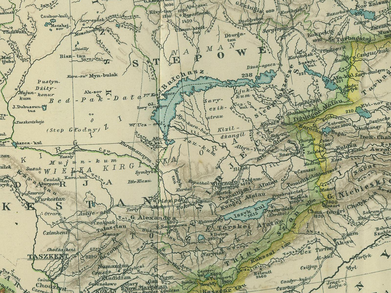 Section of the map of the Russian Central Asia from Samuel Orgelbrand's encyclopedia (1903, Poland). This section shows the Semirechye Oblast (today's SE Kazakhstan and E Kyrgyzstan) and adjacent areas.